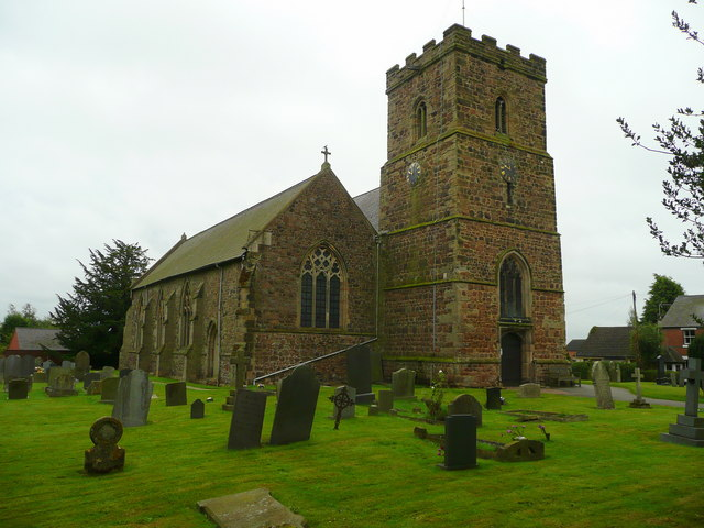 All Saints' church, Thurlaston Viewed from the north-west.